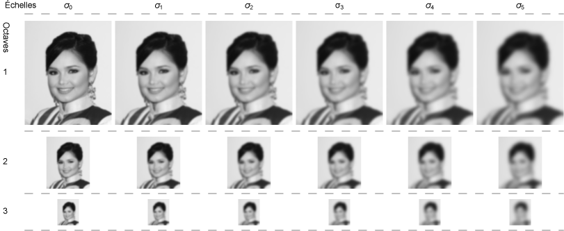 Pyramid of gradients in computer vision